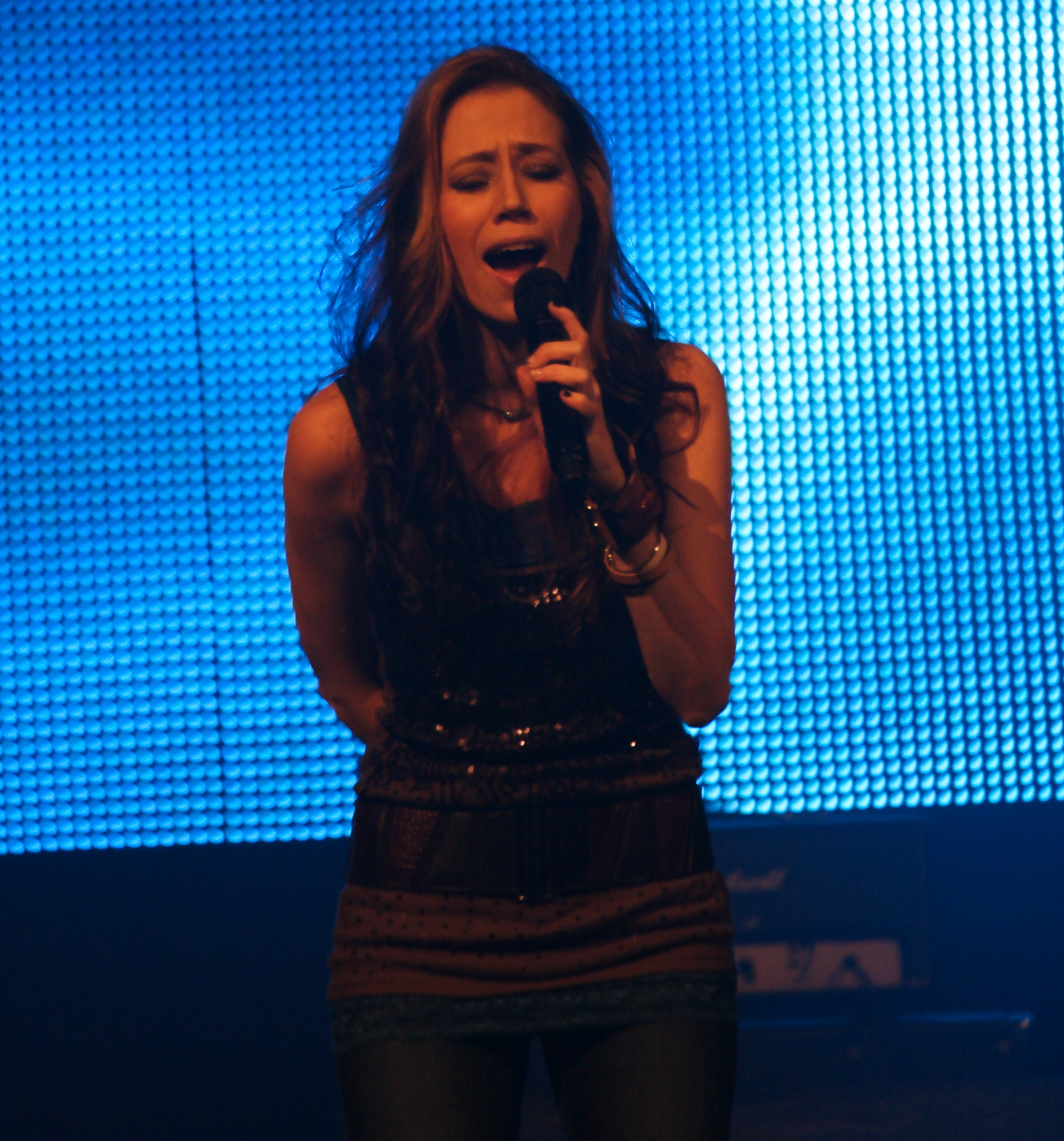 Kerrie Roberts Jefferson, Wi Concert 11-12-2011